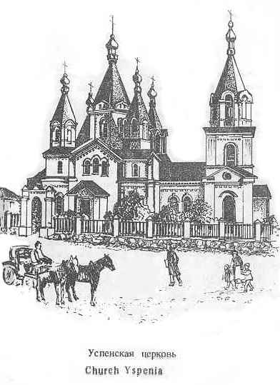 Mariupol old church